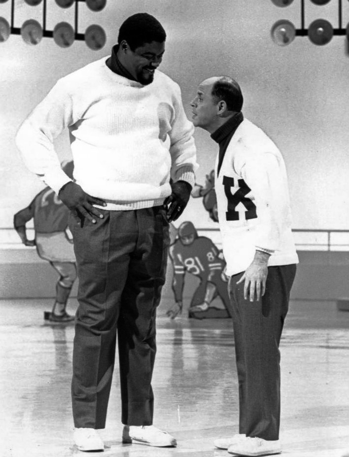 Photo of former football player Roosevelt Grier and comedian Don Rickles in a skit from the television program Kraft Music Hall.